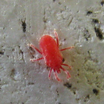 Tetranychus urticae